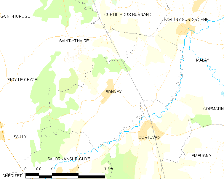 Map of French municipality